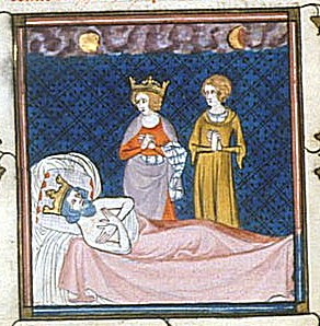 Charles Martel in the death-bed